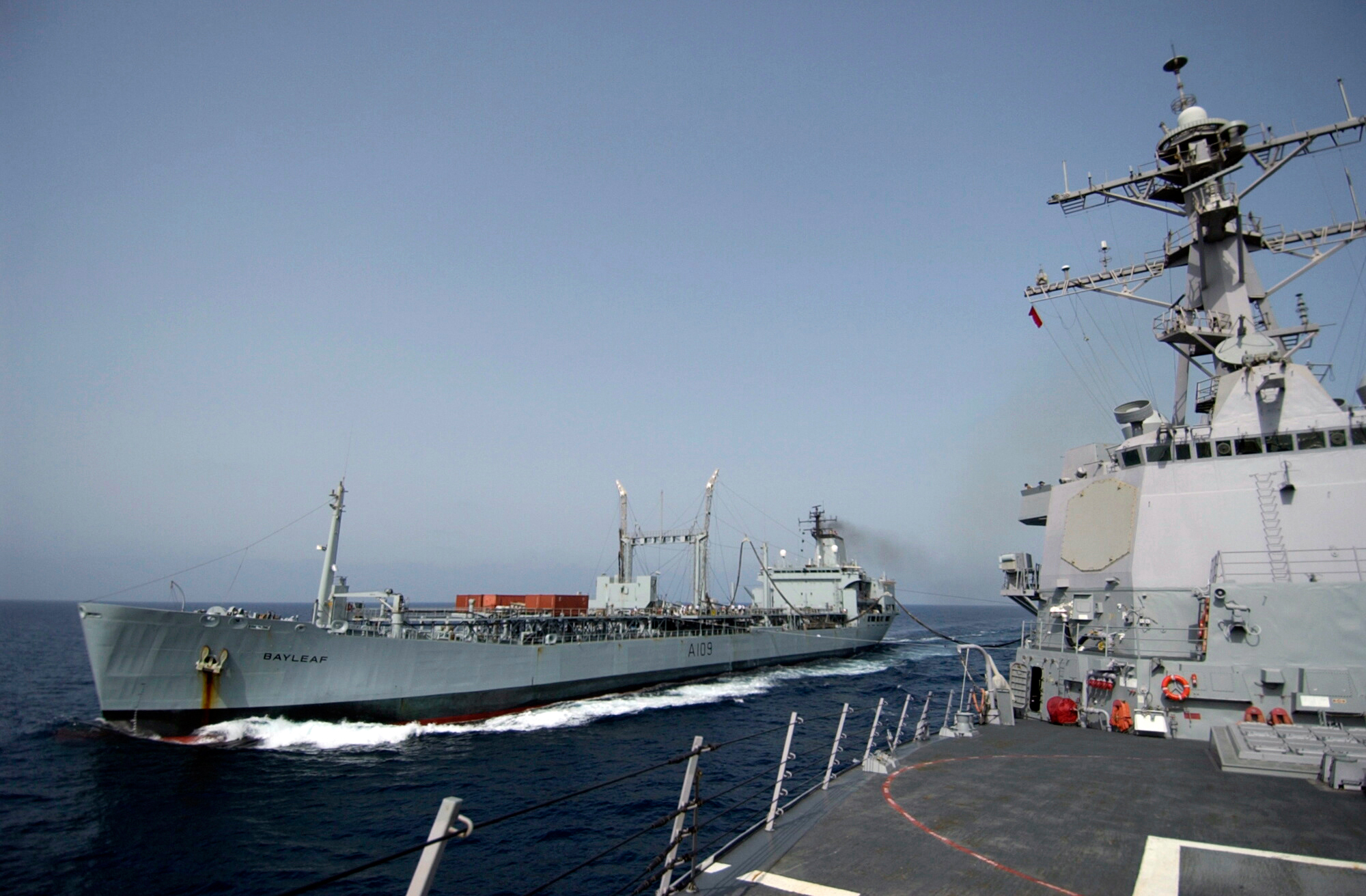 Gulf of Oman (Sept. 19, 2004) - The guided missile destroyer USS Preble (DDG 88) conducts a refueling at sea (RAS) with the British Royal Fleet Auxiliary support tanker RFA Bayleaf (A 109). Preble is in transit to conduct joint exercise Inspired Siren 2004, in the Arabian Sea with the Pakistani Navy. The exercise will focus on joint naval and air capabilities, improve their respective levels of readiness, interoperability and enhance military relations between the two nations. U.S. Navy photo by Photographer's Mate 2nd Class Aaron Peterson (RELEASED)